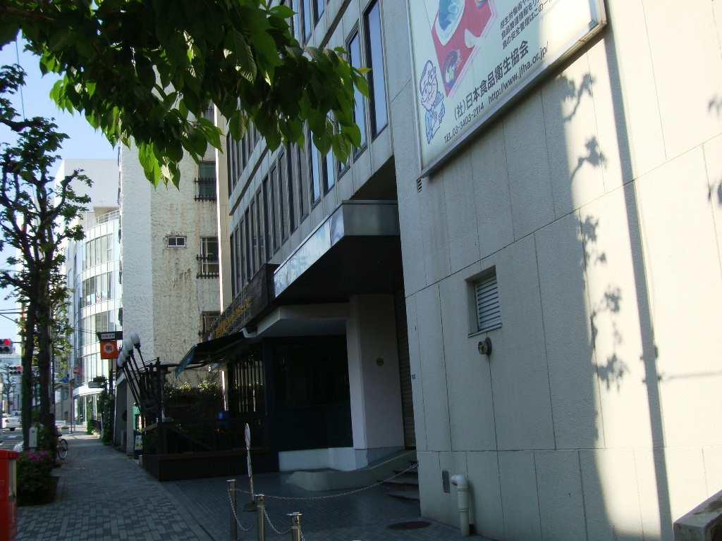 Shokuhin Eisei Center, or Food Hysiene Center, of Japan Food Hisine Association, Harajuku, Tokyo